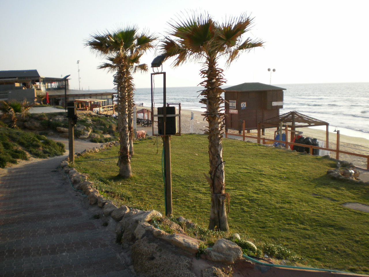 Bat Yam beach